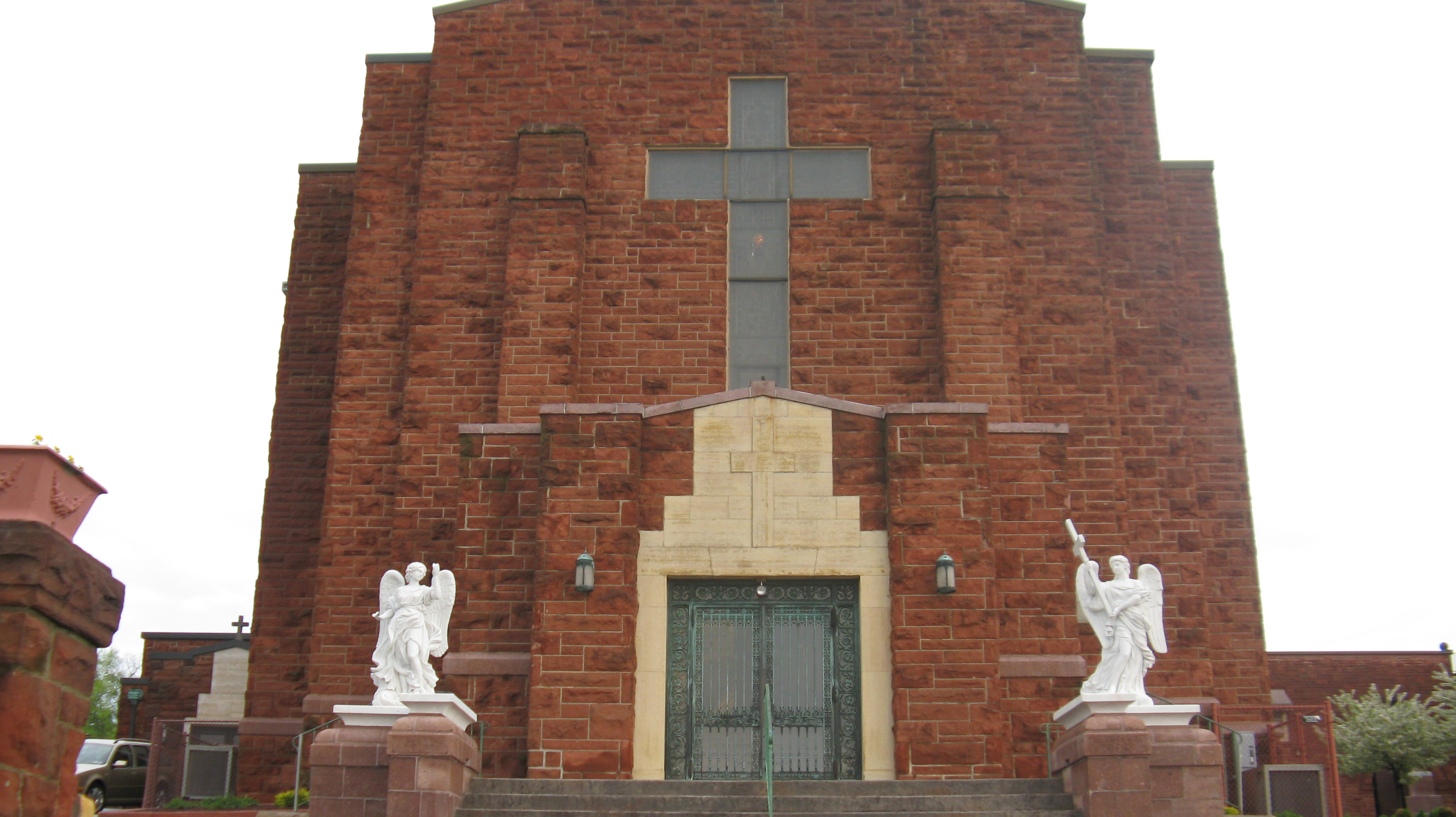 This is a photo of the front entrace to the church.